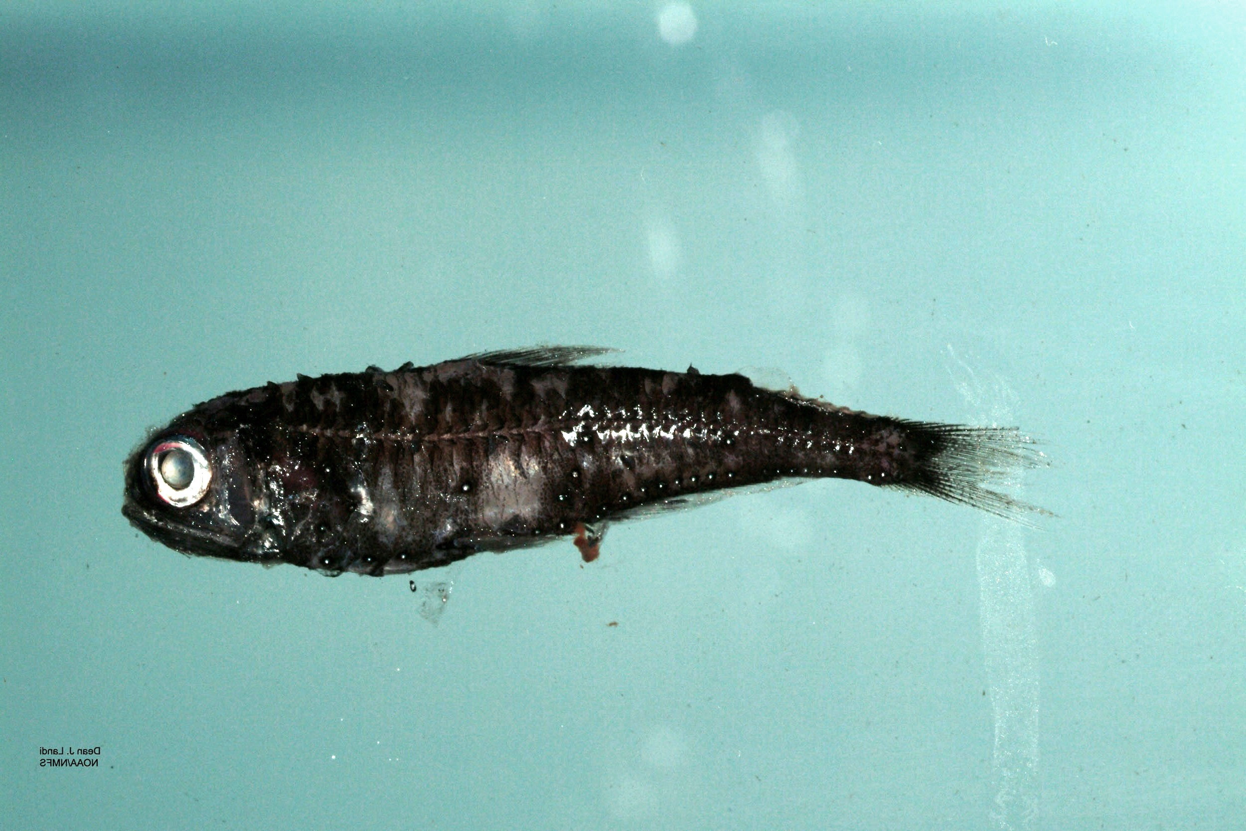 A type of lanternfish of the genus Diaphus